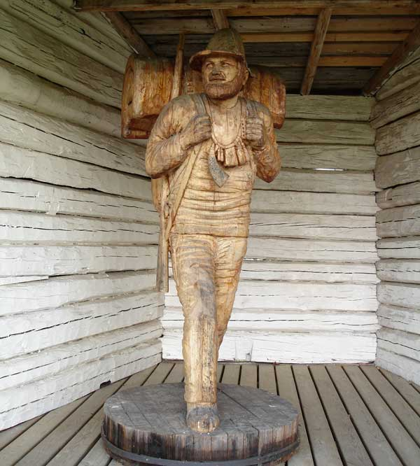 Statue of Johan Philipsson Hilduinen, the first farmer in Örträsk and southern Lapland.